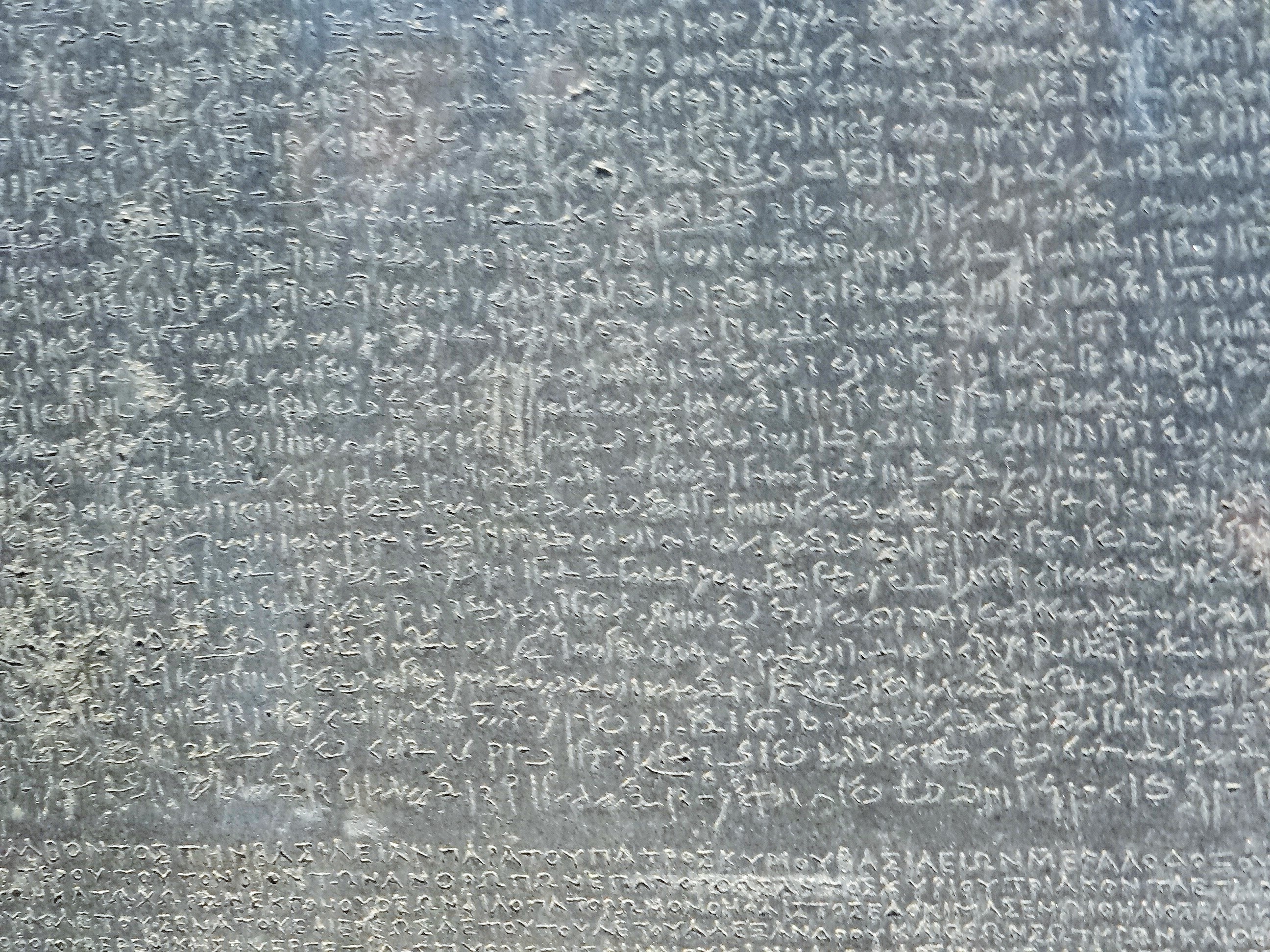 Rosetta stone (